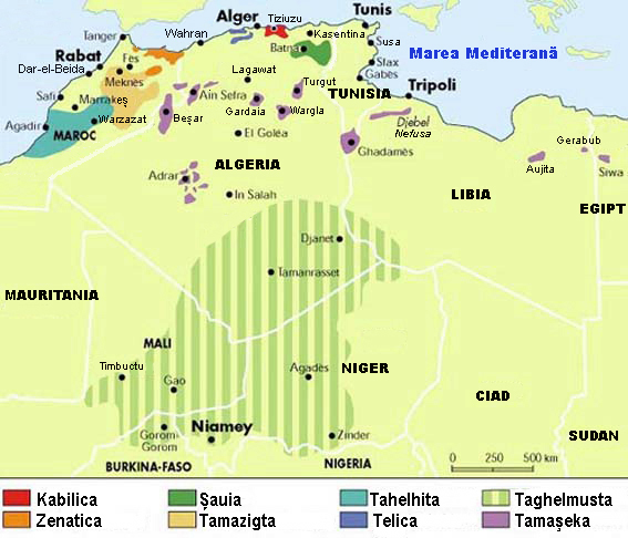 Hamitic languages in north-west Africa (romanian map)